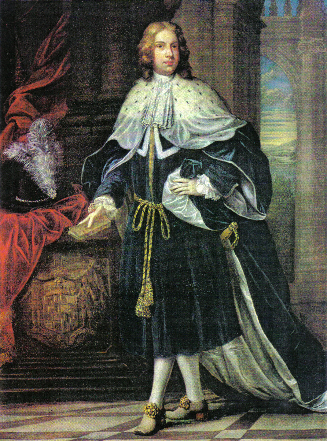 "Benedict Leonard Calvert, fourth Lord Baltimore (1679-1715), artist unknown"